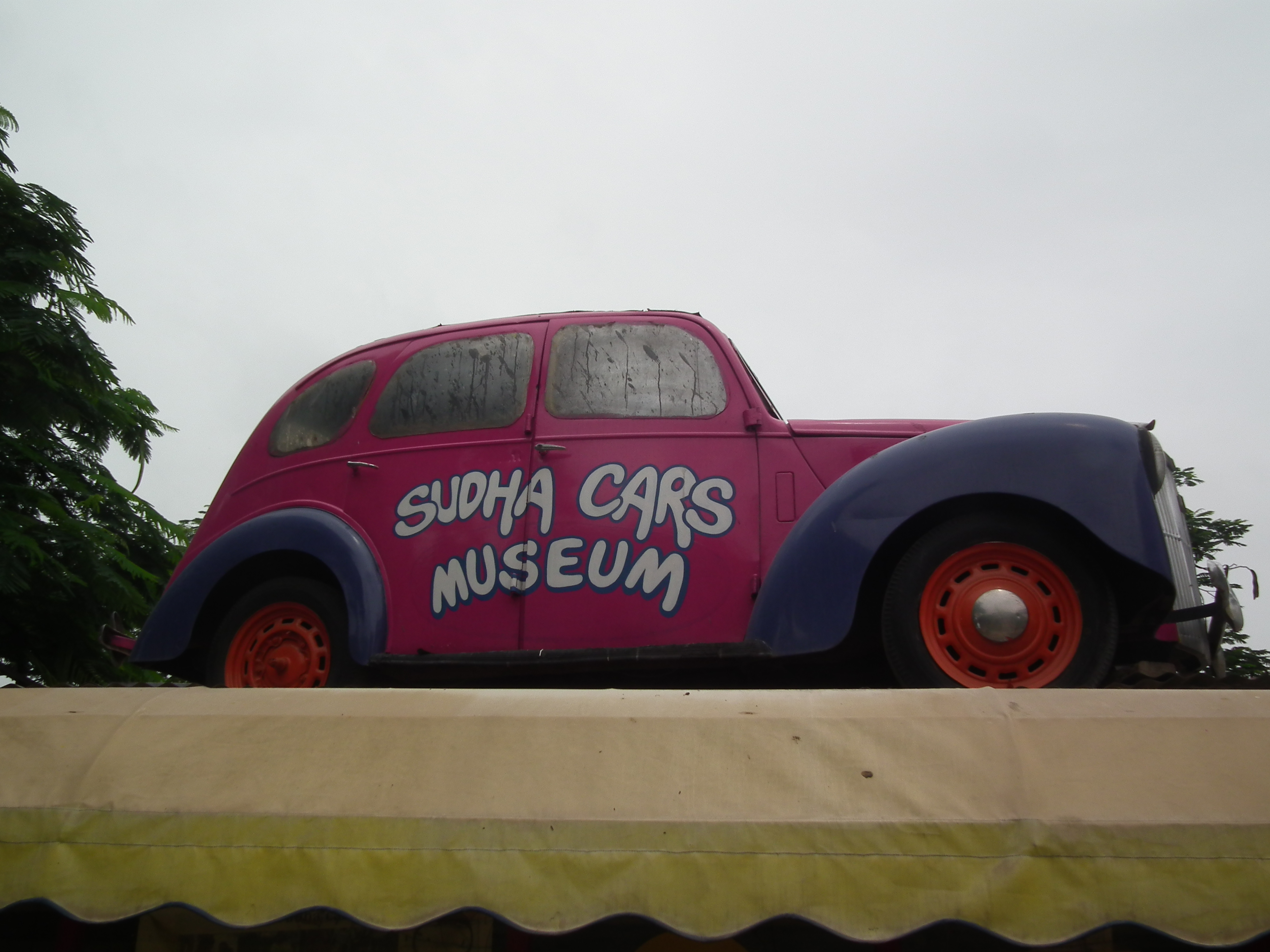 Ford Prefect E493A - Photo from Sudha Cars Museum in Hyderabad, India